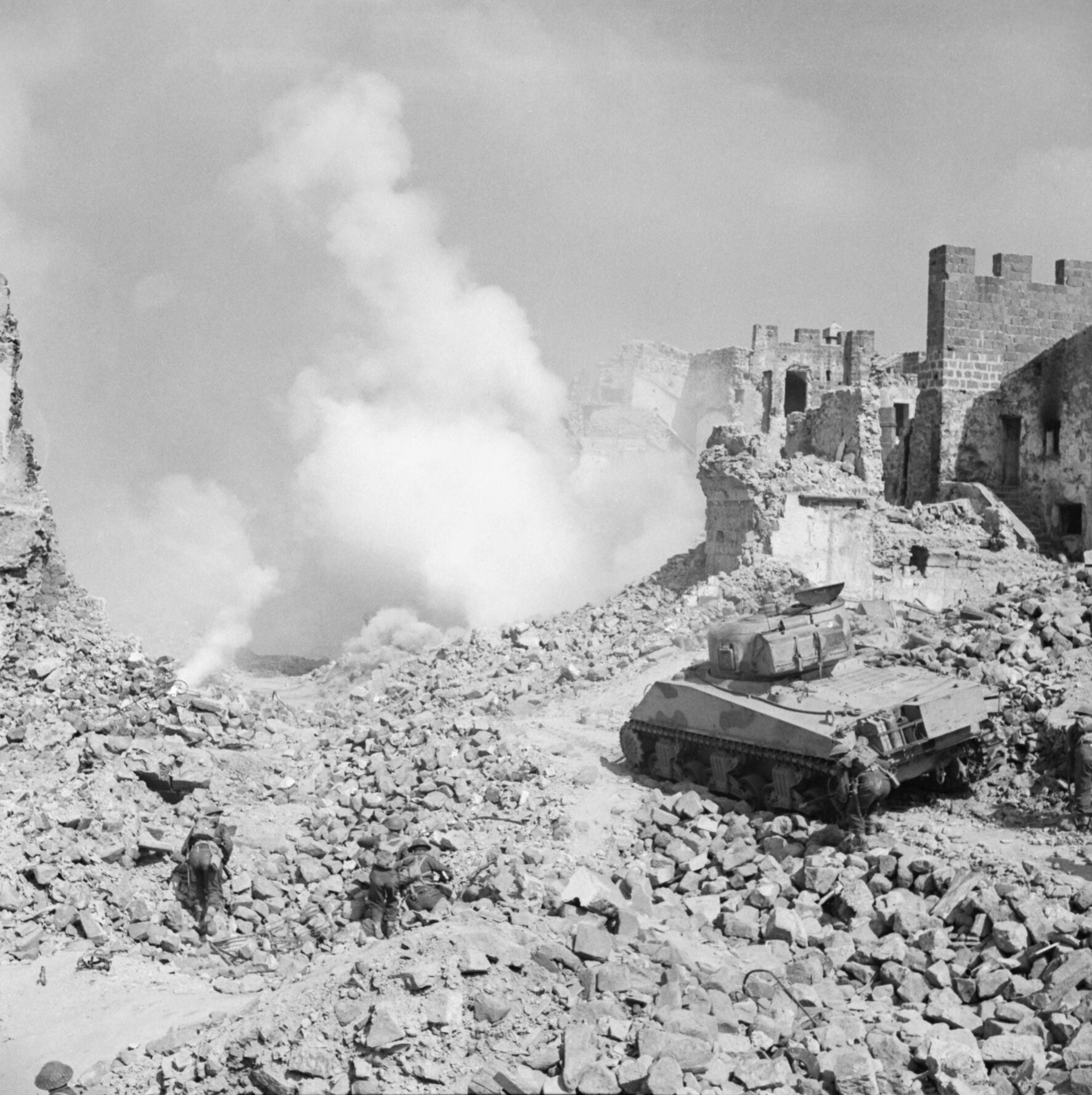 A Sherman tank of 19th Armoured Regiment, 4th New Zealand Armoured Brigade supporting infantry of 6th NZ Infantry Brigade, during a reconstruction of the action at Cassino, Italy, 8 April 1944. A Sherman tank of 19th Armoured Regiment, 4th New Zealand Armoured Brigade supports infantry of 24th Battalion, 6th NZ Infantry Brigade, during a reconstruction of recent action in Cassino, 8 April 1944.